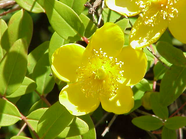 Species: Hypericum ×moserianum Family: Guttiferae Image No. 1